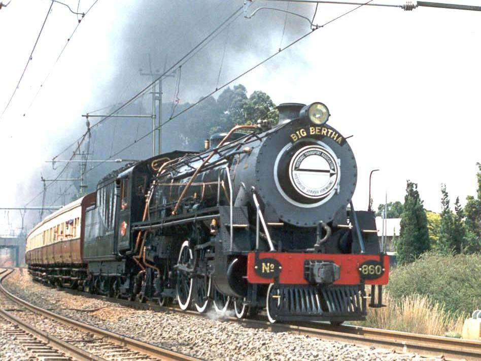 SAR Class 16D 860 (4-6-2) "Big Bertha" Location: Near Princess station on the Johannesburg-Magaliesburg line